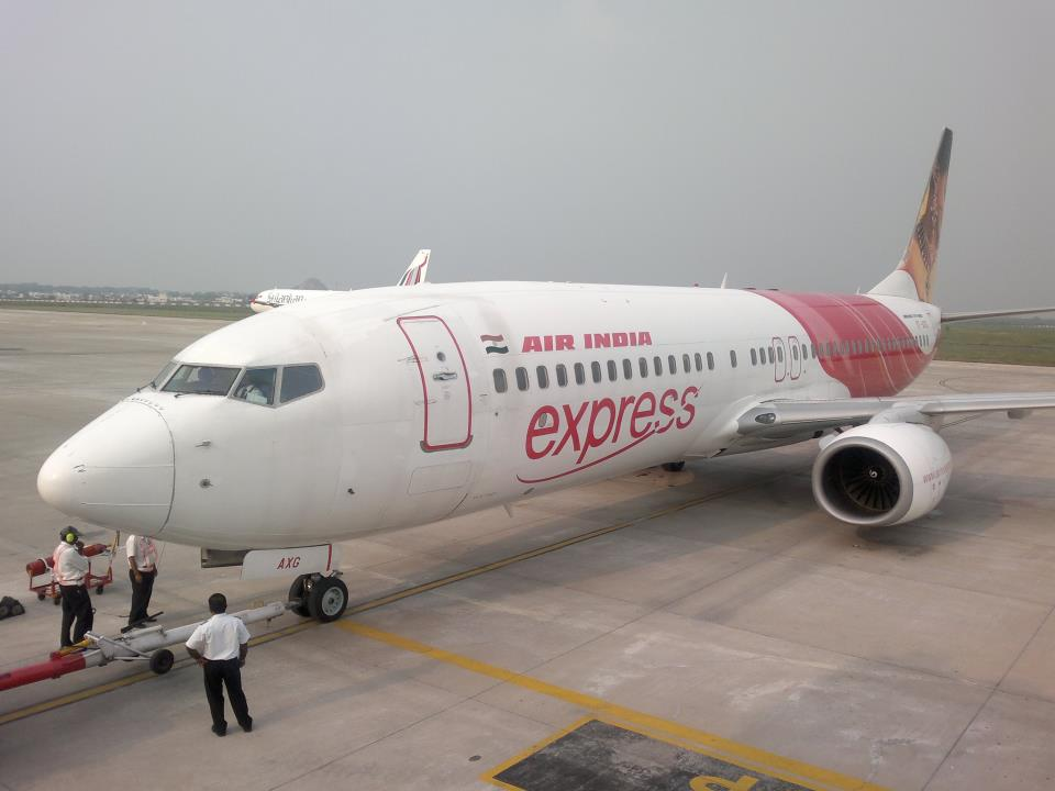 TRZ aix and ul. Registration -AXG.